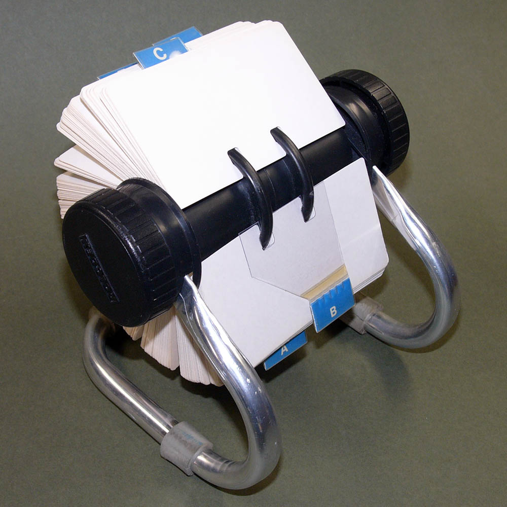 Card index, file system to register and search for addresses; manufactured by ROLODEX